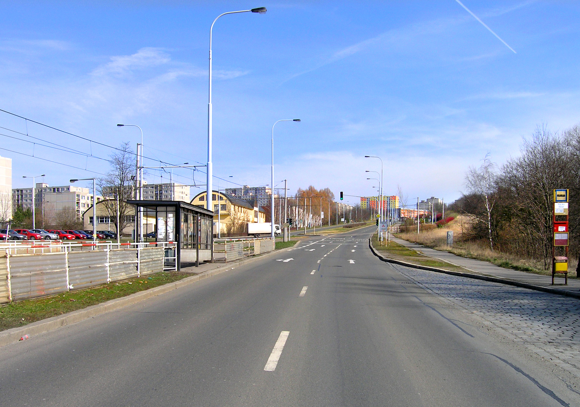 Generála Šišky street at Modřany, Prague